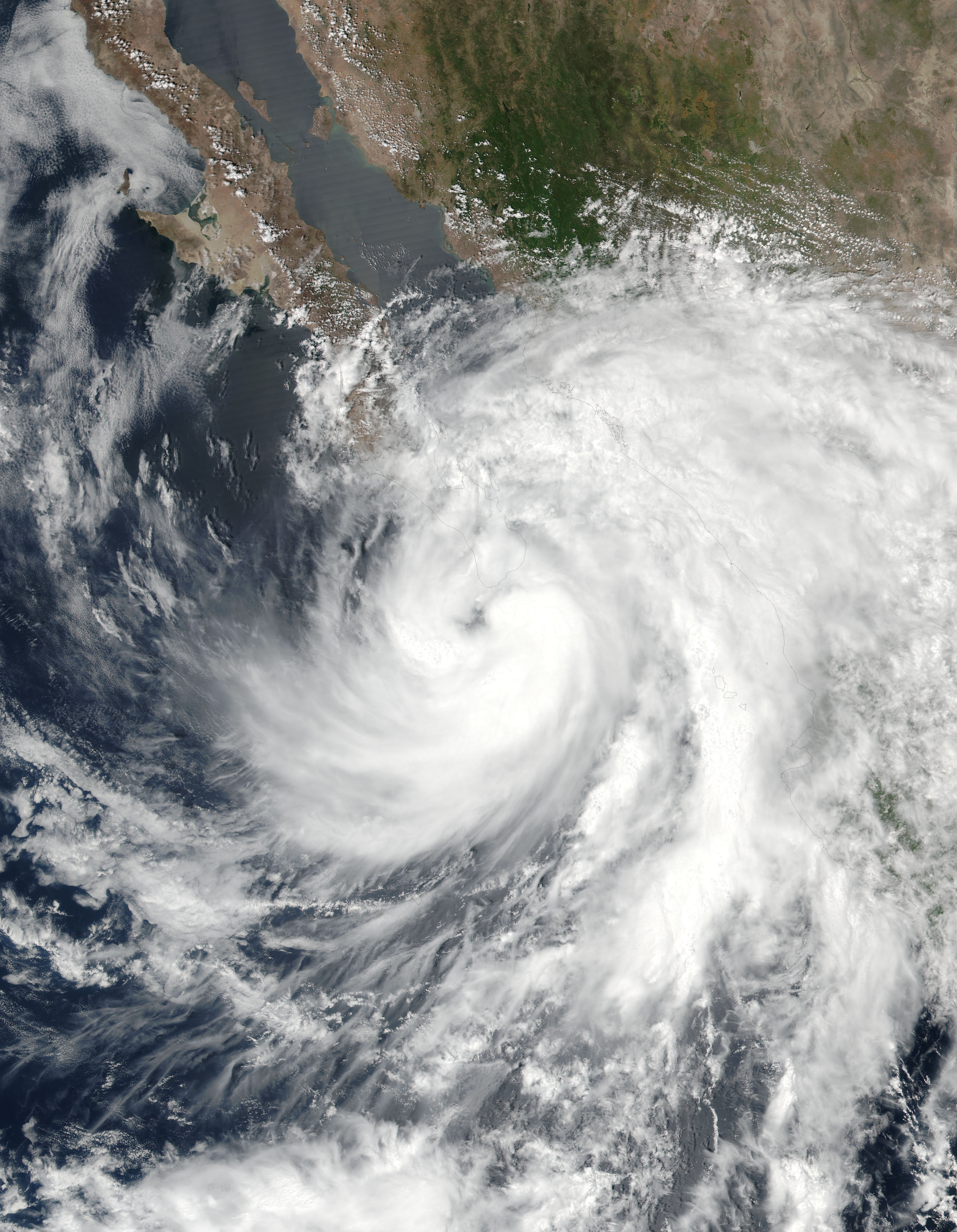 Tropical Storm Lidia (14E) over western Mexico